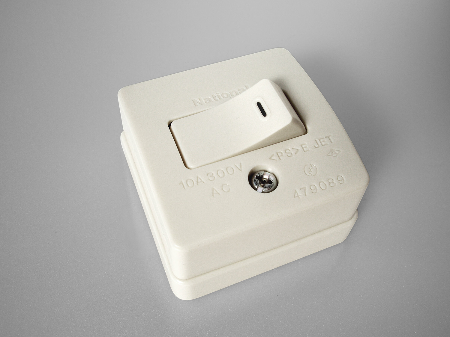 Switch